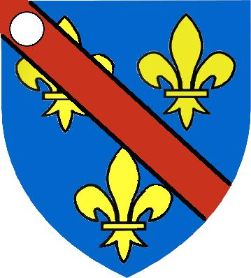 Coat of Arms. The Prince of Condé (named after Condé-en-Brie, now in the Aisne département) is a historical French title, originally assumed in the mid-sixteenth century by the French Protestant leader, Louis of Bourbon (1530-1569), uncle of King Henry IV of France, and borne by his descendants.